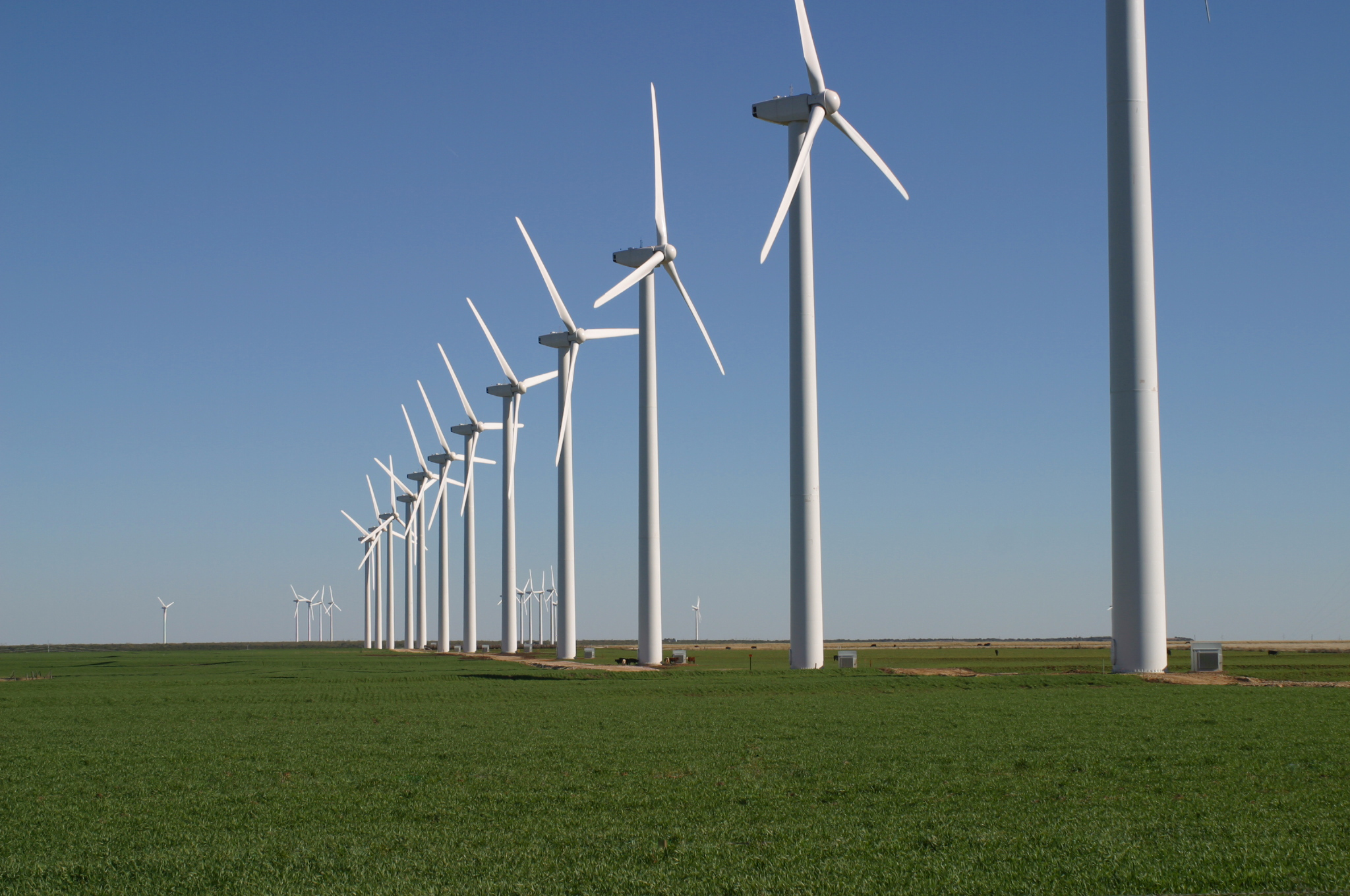 The Brazos Wind Farm, also known as the Green Mountain Energy Wind Farm, near Fluvanna, Texas. Note cattle grazing beneath the turbines.